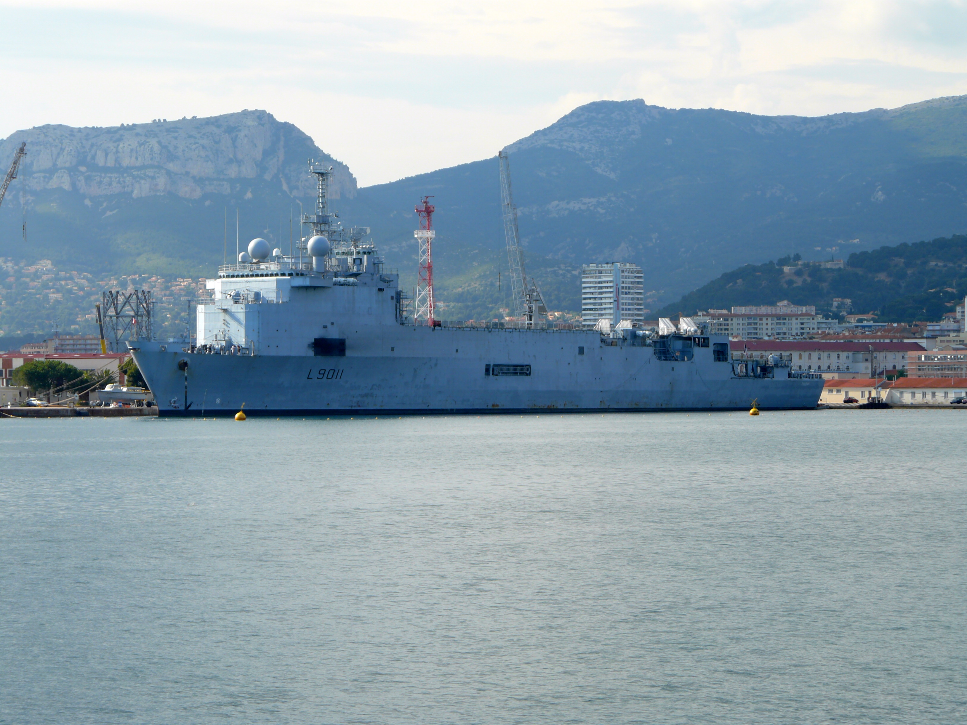 The french naval Ship TCD Foudre at the Toulon Harbour.